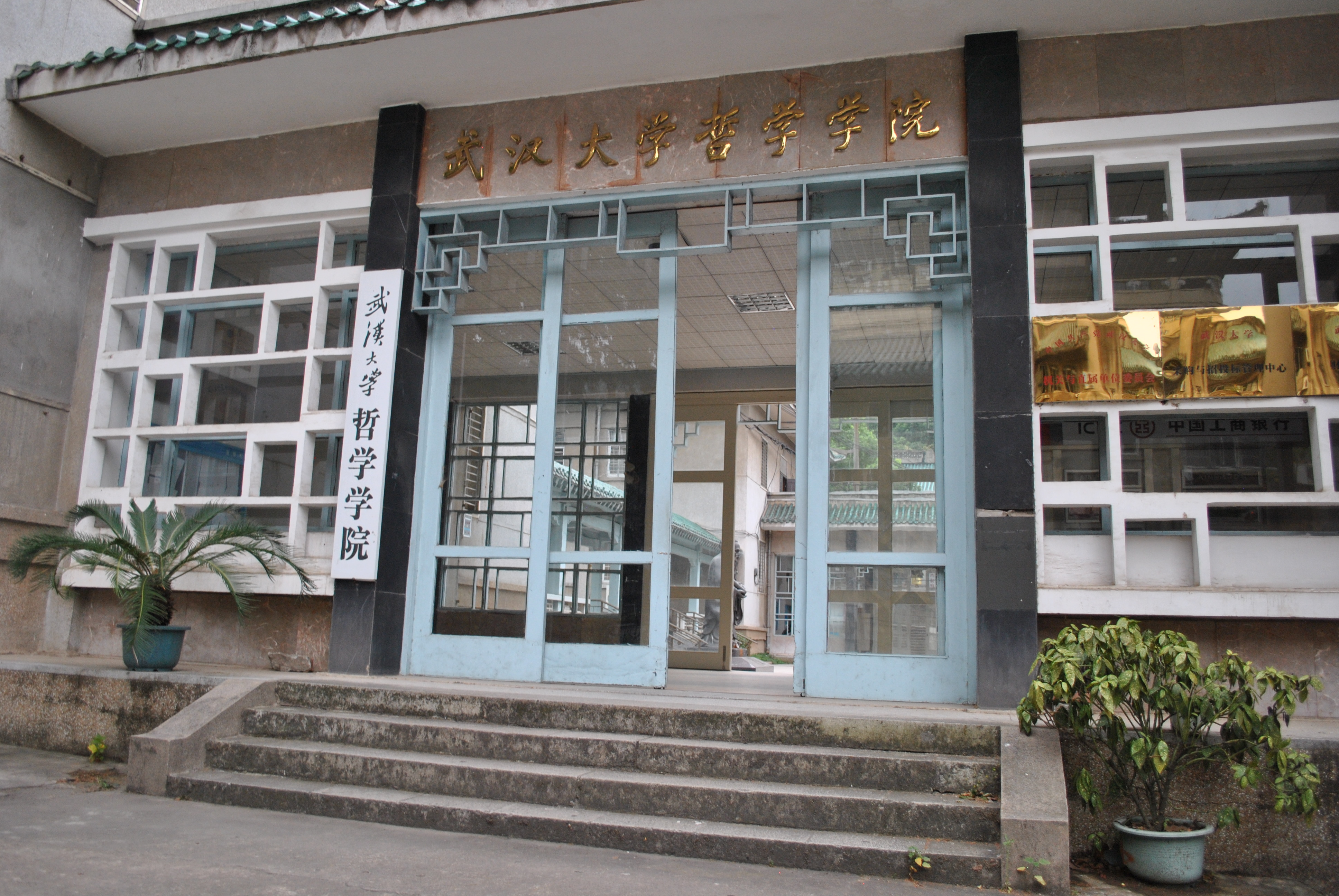 wuhan university dept of philosophy